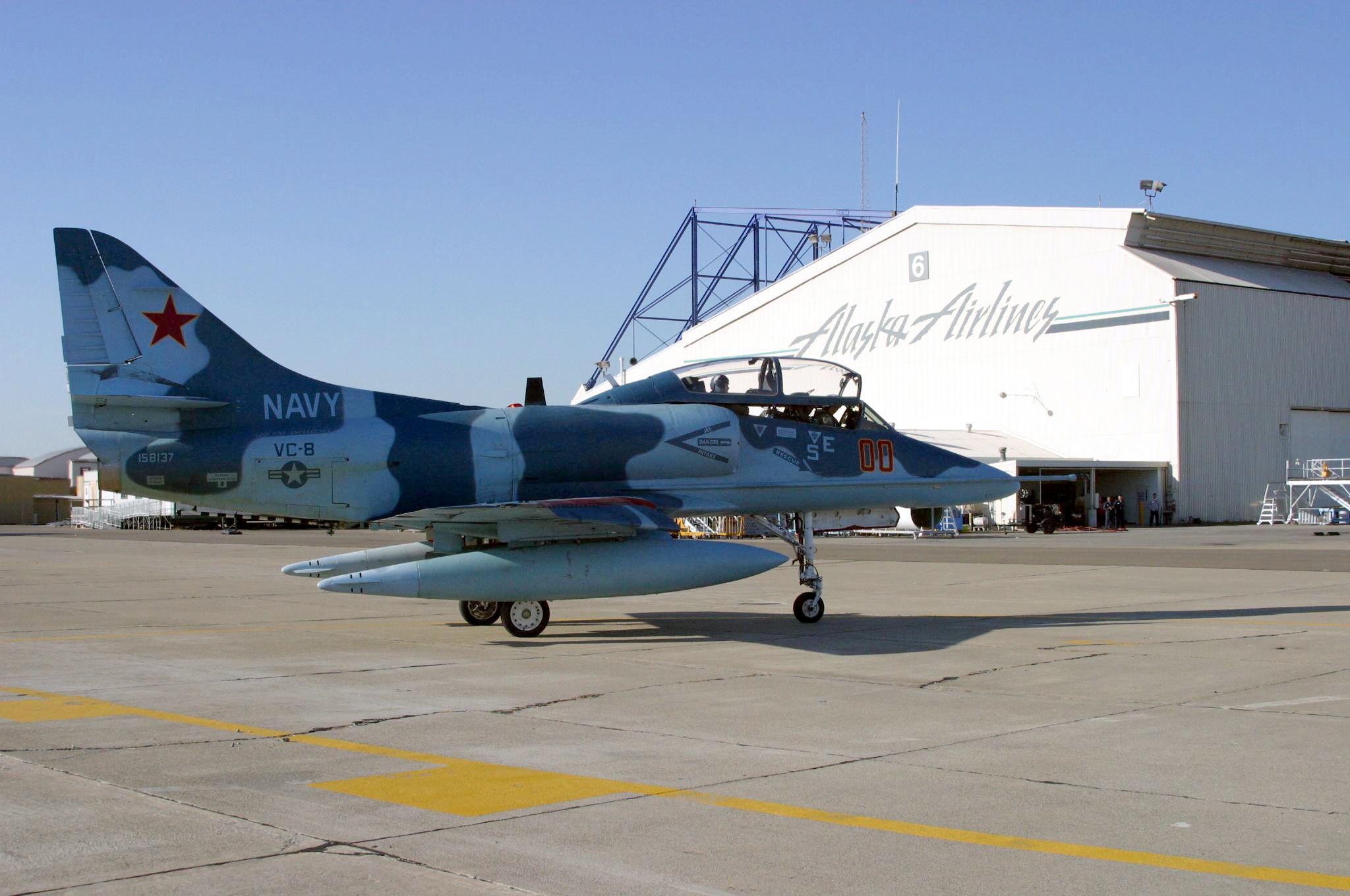 A Douglas TA-4J Skyhawk (BuNo 158137) of Fleet Composite Squadron 8 (VC-8) "Redtails" taxis to a stop in front of Alaska Airlines’ maintenance facility at Oakland, California (USA) after a ferry flight from Roosevelt Roads, Puerto Rico, on 8 April 2003. The aircraft was later de-milled (rendered incapable of flight) and put on display aboard the "USS Hornet museum" at the former U.S. Naval Air Station in Alameda, California (USA). VC-8 was disestablished as the last active U.S. Navy Skyhawk-squadron on 23 August 2003.